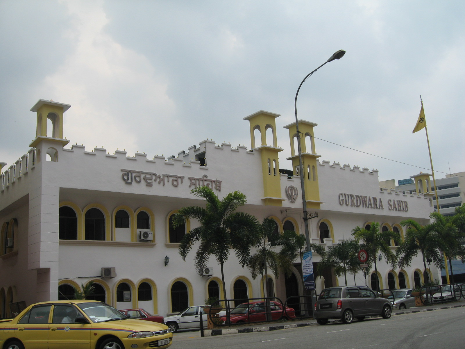 Gurdwara Sahib, Johor Bahru, Johor, Malaysia